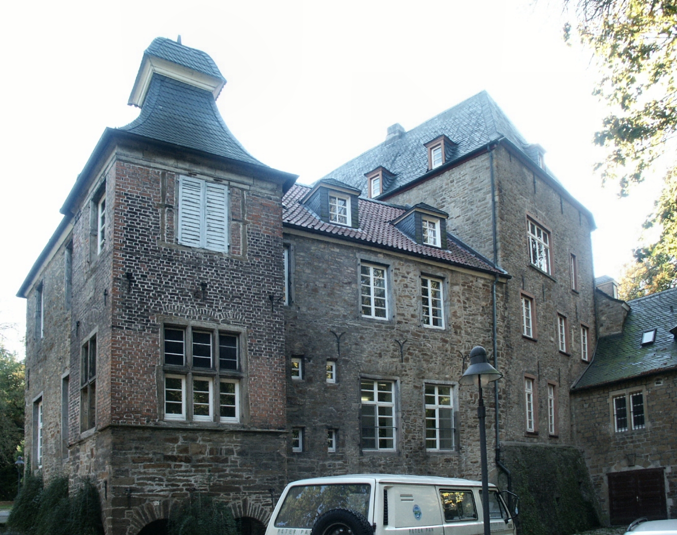 Description: Schloss Schellenberg - main building, south-western aspect Capture date: 13. Oct. 2005 Photographer: Sir Gawain